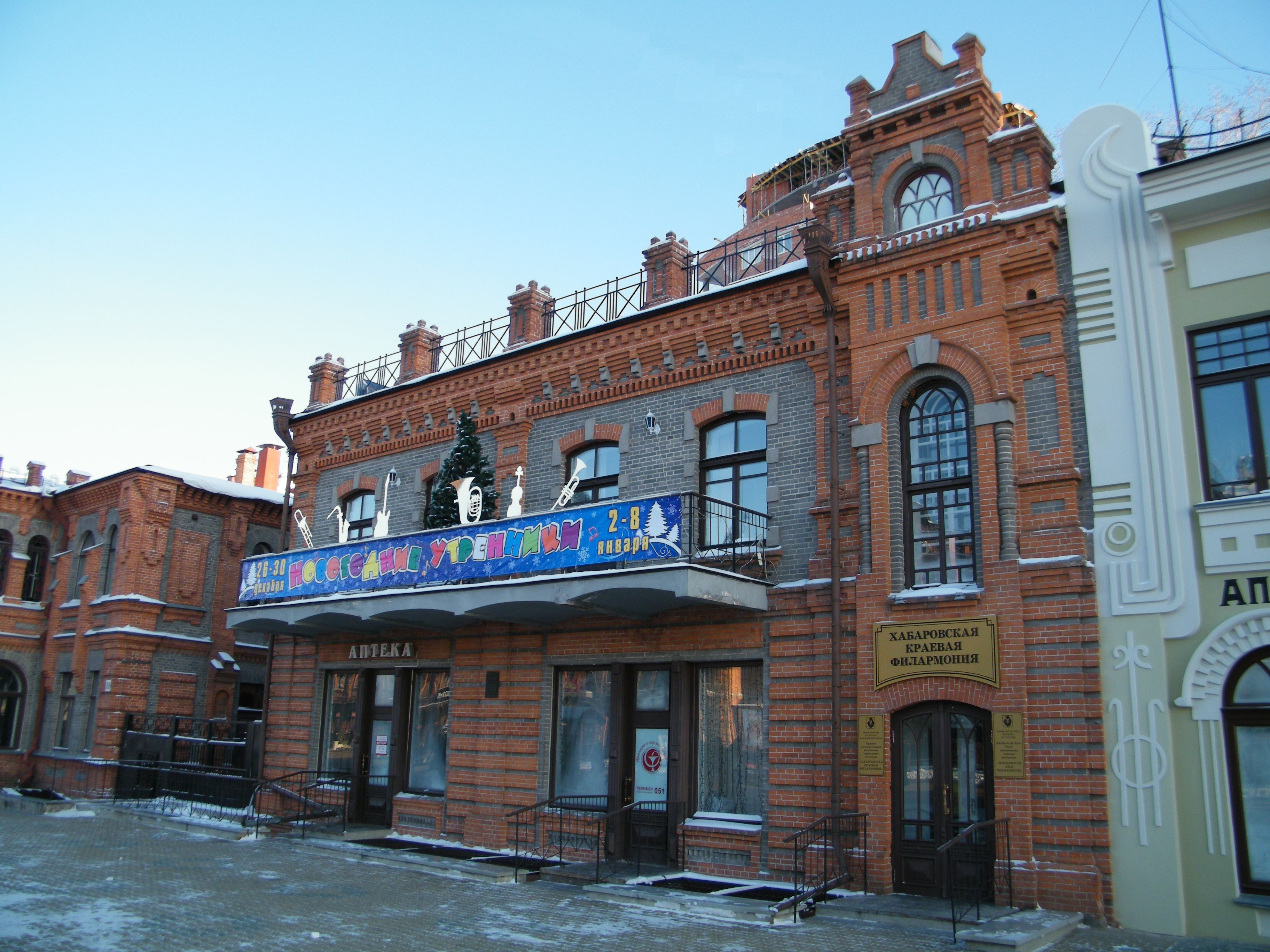 Khabarovsk